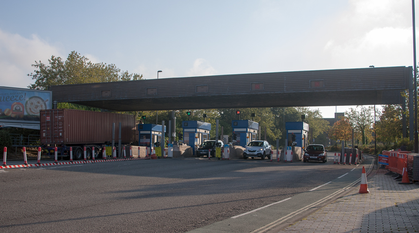 Itchen Bridge toll booths